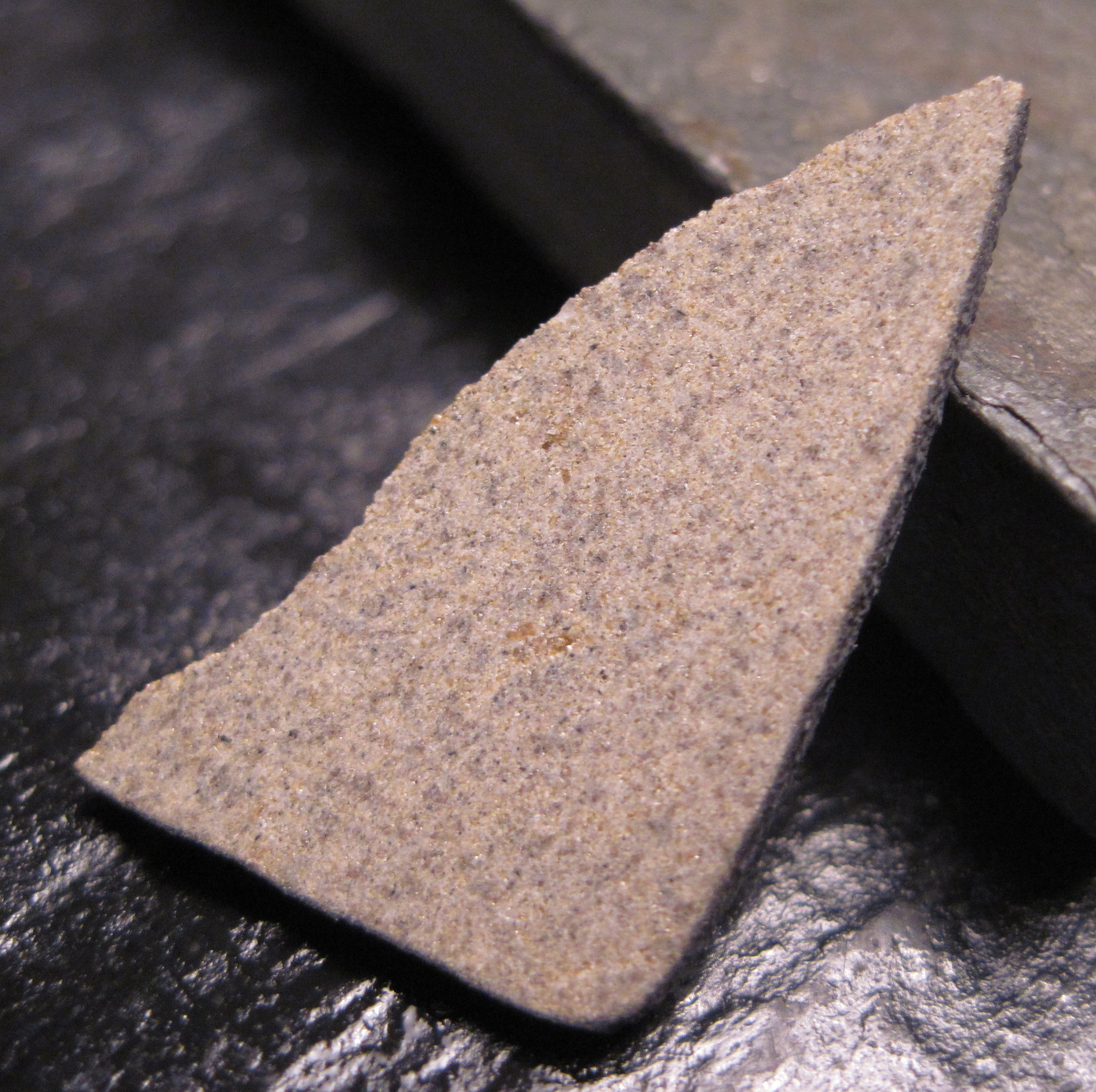 This is a 1.22 g partial slice of the beautiful unbrecciated eucrite named agoult (found in 2000). The matrix is reminiscent of fine packed sand or sugar which is nicely contrasted with the dark black fusion crust.